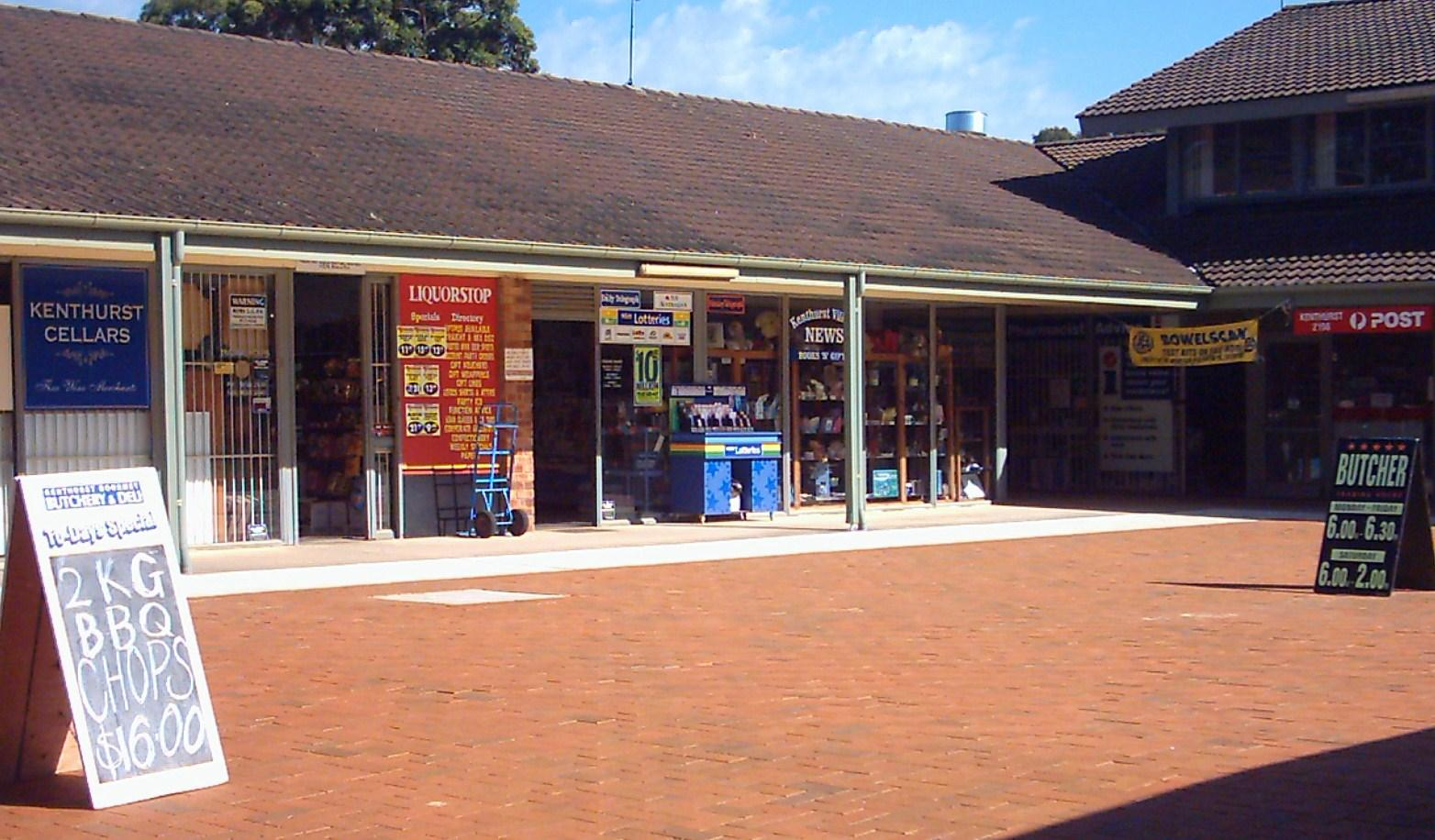 Kenthurst Village Shops, Photo taken by Dave Colvin, Free for any use.